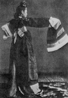 Photograph of a Joseon Dynasty kisaeng in Pyongyang, Korea. Taken in 1890 by William James Hall, who died in 1894. Public domain due to age. Retrieved 22 January 2006 from [1] by User:Visviva.